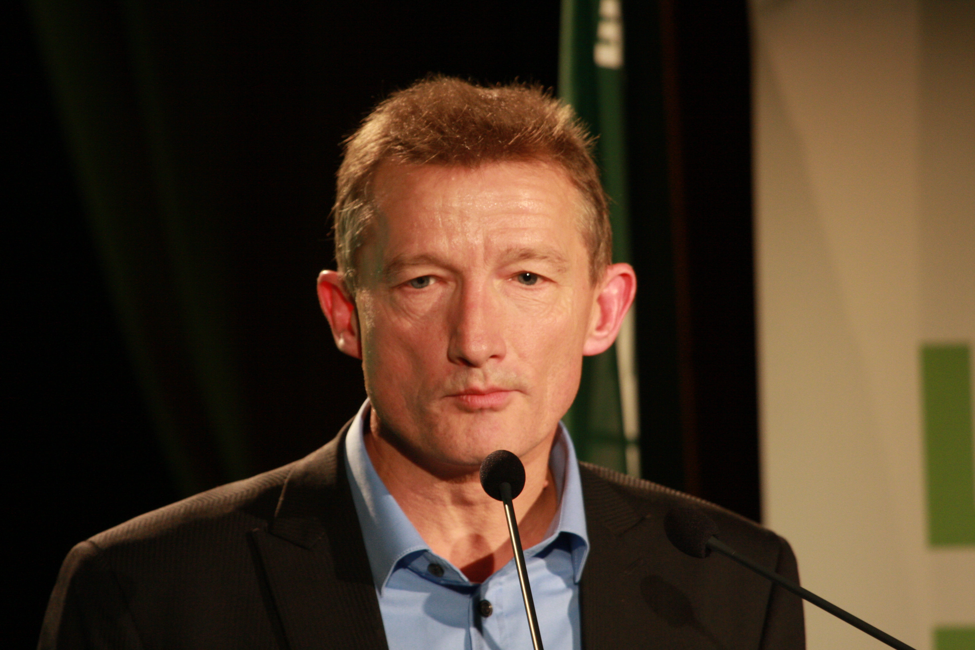 Jean-François Caron adressing a green party political meeting.